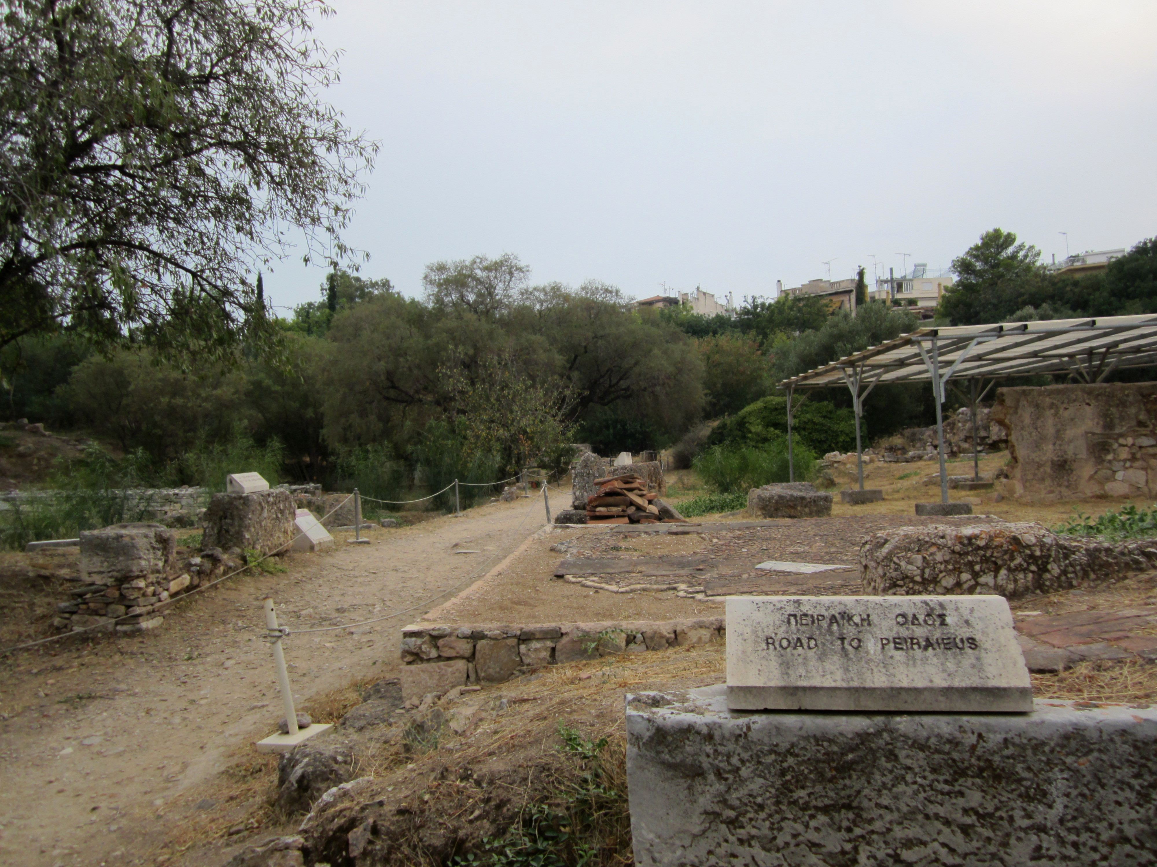 Ancient road to Piraeus near Desmoterion. Ancient Agora of Athens, Greece.